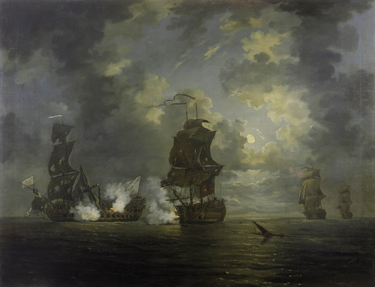 The 'Foudroyant' was a large and new 80-gun French flagship of a squadron under Admiral Duquesne. On 28 February 1758 she was on her way to relieve the French Commodore, de la Clue, at Cartagena when she was intercepted by Admiral Osborn with three British ships of the line, the 'Monmouth' and 'Hampton Court', both 64 guns, and the 'Swiftsure', 70 guns.